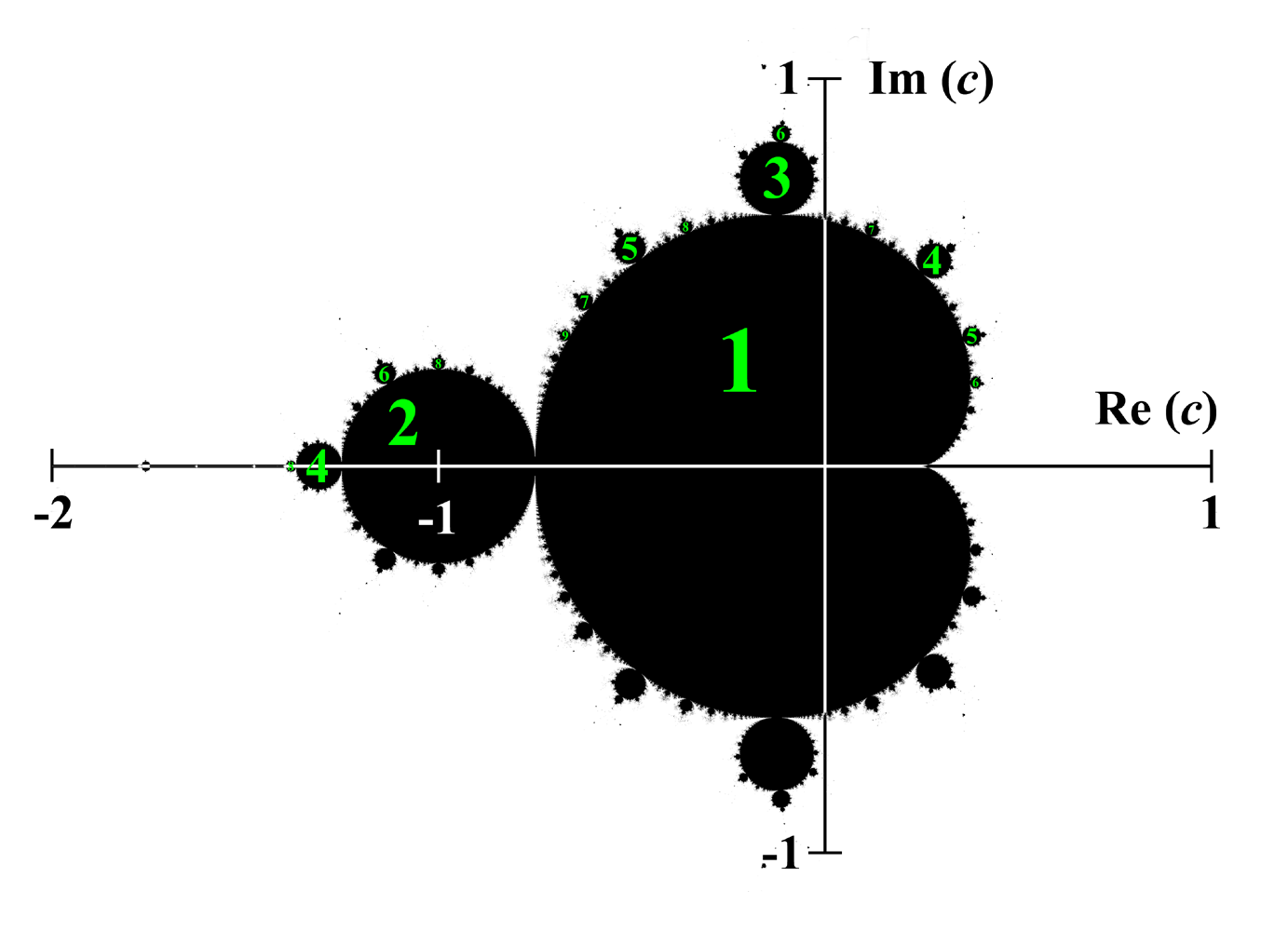 Mandelbrot set in the complex plane. The green numbers give the periodicities of the cycles to which the sequence for c values from the different black structures converges.